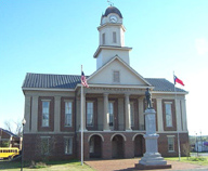 This building was completely gutted by flames on March 25, 2010. Using the original exterior walls, the courthouse is currently being renovated and rebuilt.